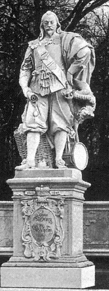 Central statue commemorating Brandenburg’s Margrave and Elector George William (1595–1640) from monument group № 24 in the former Siegesallee in Berlin. Sculptor: Cuno von Uechtritz-Steinkirch. The sculpture was unveiled on 23 December 1899.